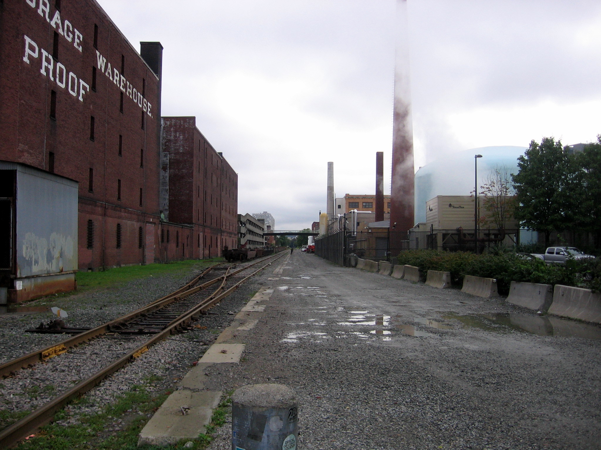 The Grand Junction Railroad running through MIT, looking southwest from Massachusetts Avenue. The blue dome at right is the MIT Nuclear Research Reactor.